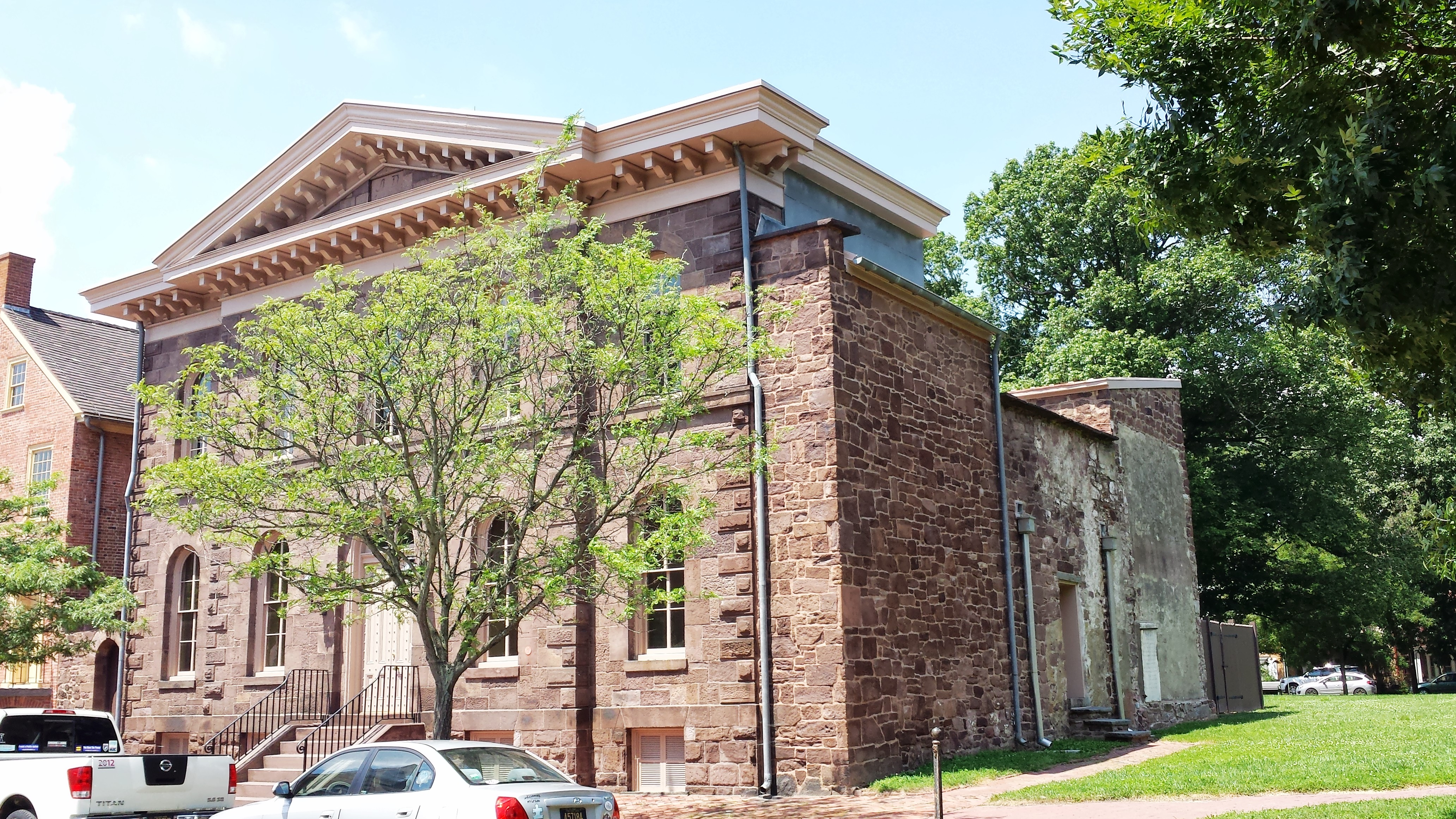 historic Sheriff's House and jail, New Castle, DE